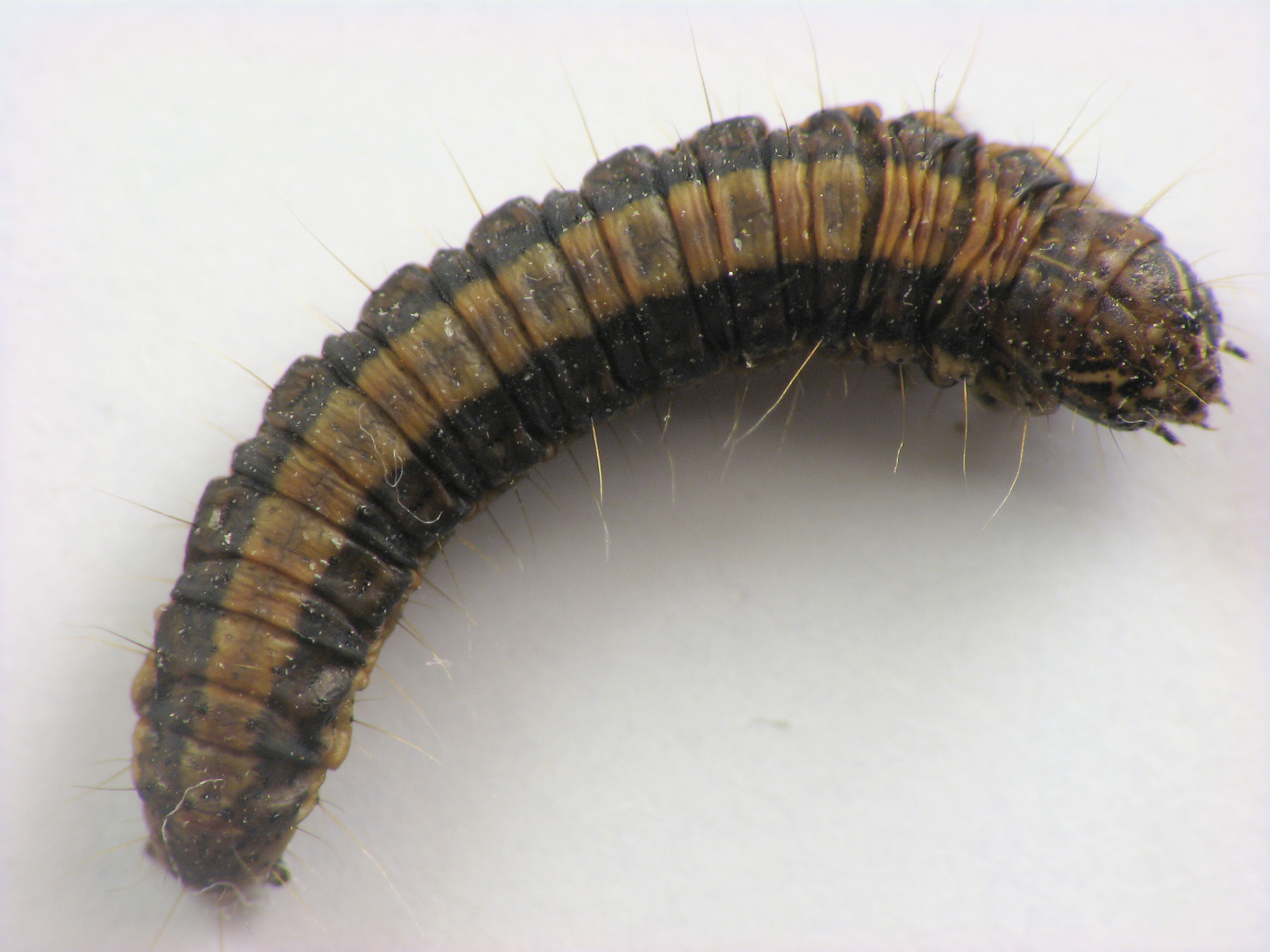 Larva of pyralid moth, Pococera, found on sweetgum. Size: 14-16 mm. Rancocas Nature Center NJAS, Burlington County, New Jersey, USA.